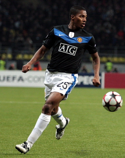 Antonio Valencia of Manchester United during away game against PFC CSKA Moscow